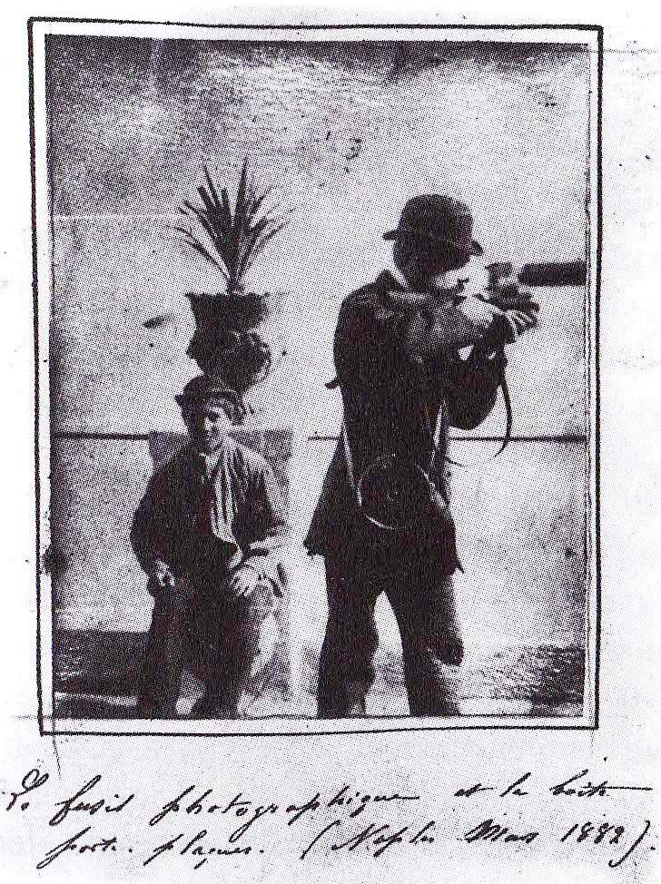 Étienne-Jules Marey in Naples with photographic gun